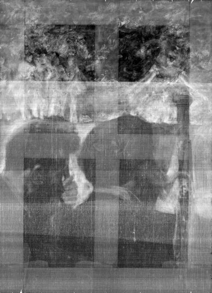 Musiciens a l'orchestre, xray